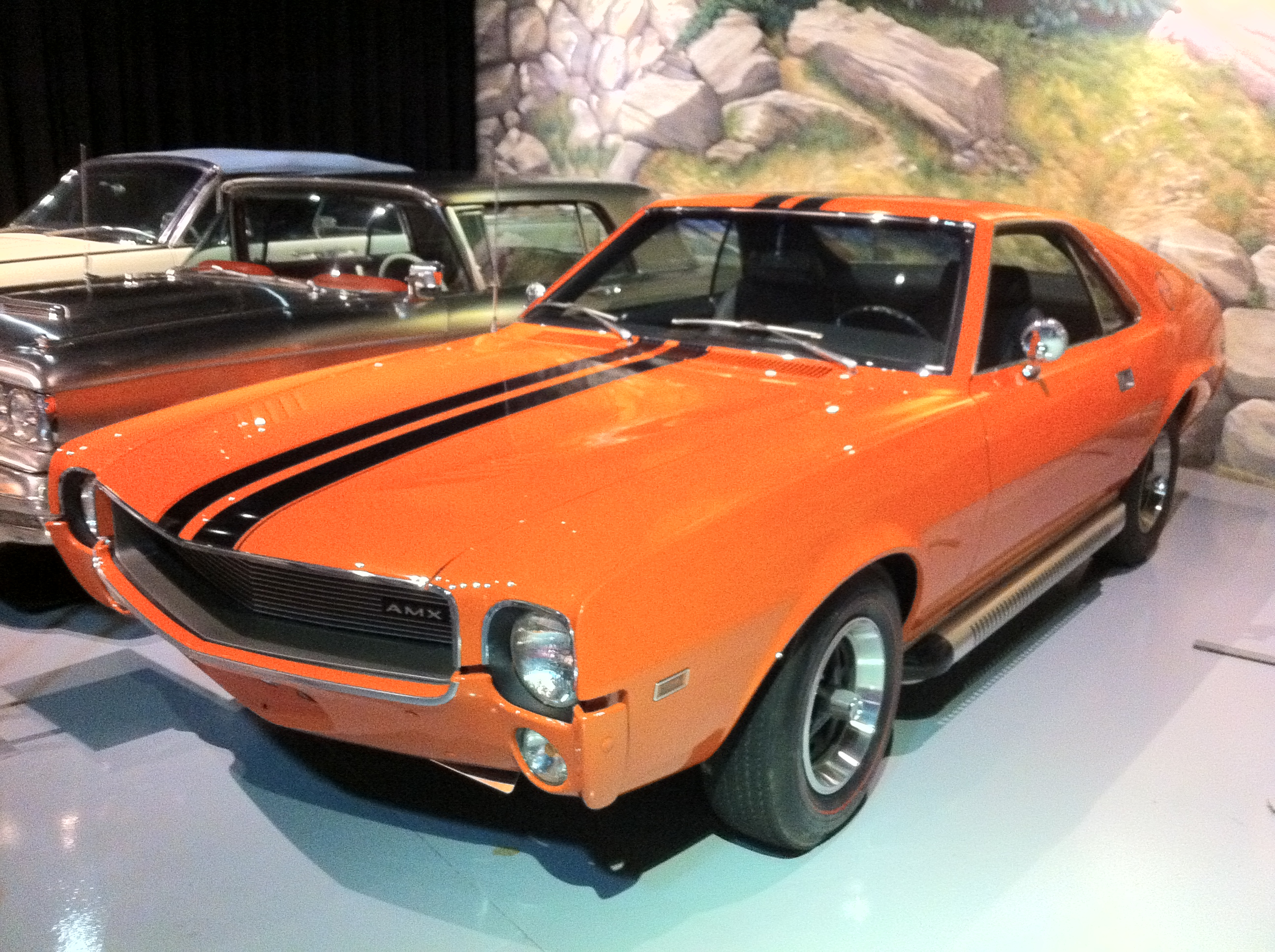 1969 AMX, a two-seat GT sport coupe made by American Motors Corporation (AMC). This "muscle car" has the 390 "Go Package" that included the 390 cu in (6.4 L) high-compression 4-bbl 315 hp (235 kW; 319 PS) V8 engine, racing stripes, power front disk brakes, Twin-Grip rear differential, Magnum 500 wheels with trim ring, E70x14 red-stripe performance tires, and other high-performance components. This car has the "Big Bad Orange" paint option that included painted bumpers and matching rear bumper guards. Photograph taken at the Antique Automobile Club of America Museum, located in Hershey, Pennsylvania. This AMC AMX was one of the first cars donated to the museum's permanent collection. The AACA is premier car club in the world focused on antique cars, trucks, motorcycles, and their history.